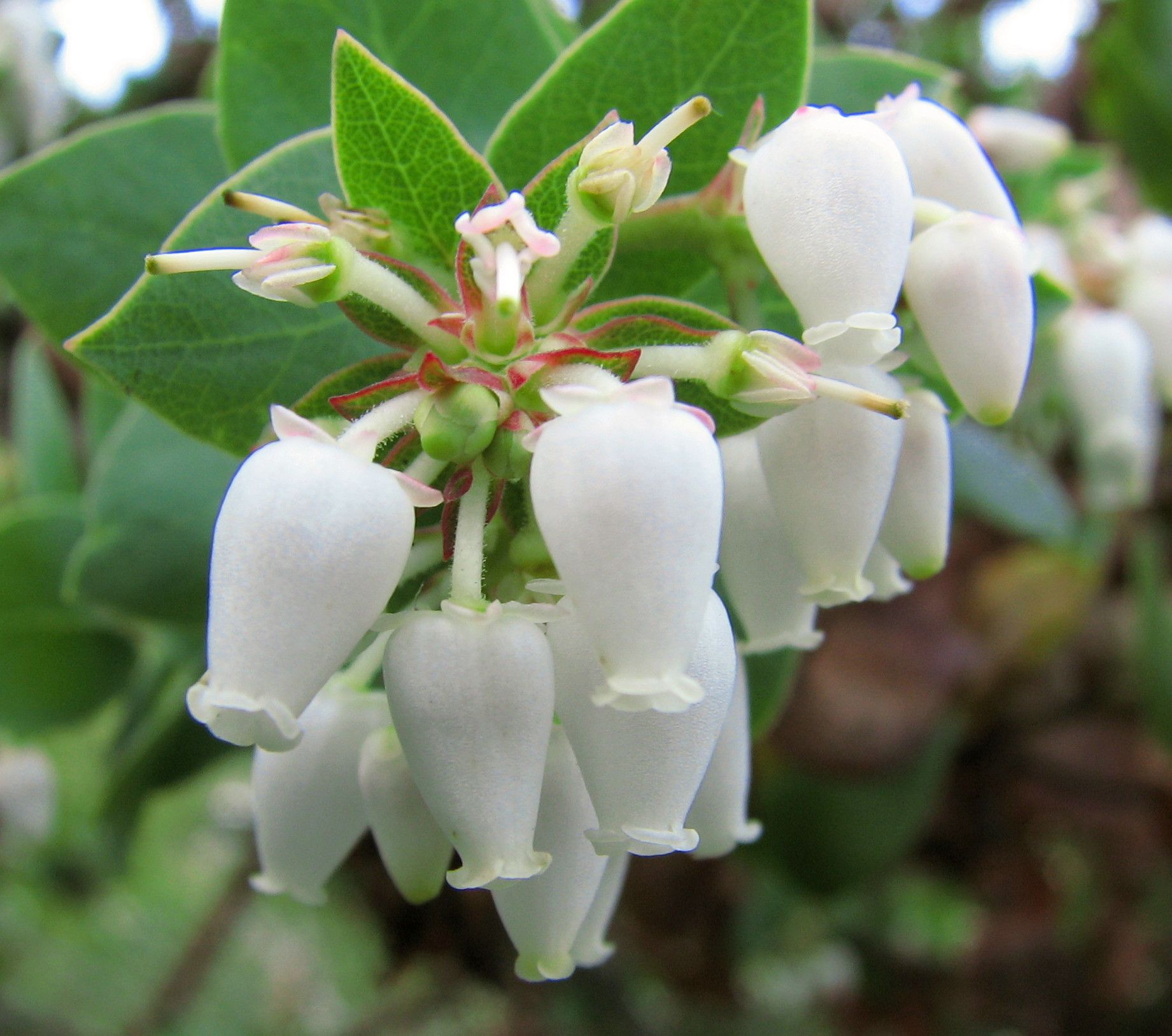 Arctostaphylos pallida (Alameda Manzanita), flowers. Taken at Sobrante Ridge Regional Preserve, in the Berkeley Hills, northern California.